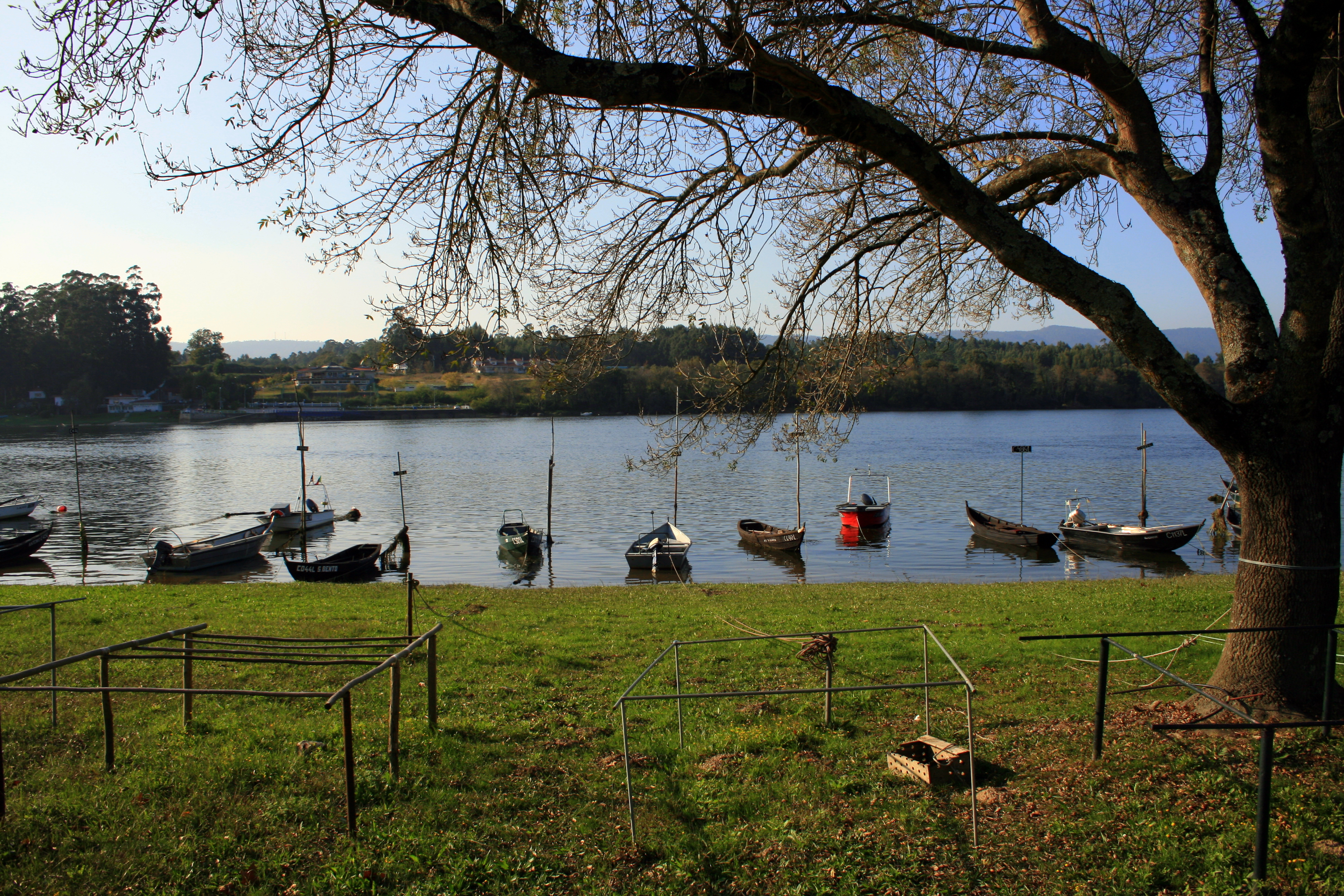 Boats in Minho river (río Miño) in Vila Nova da Cerveira.